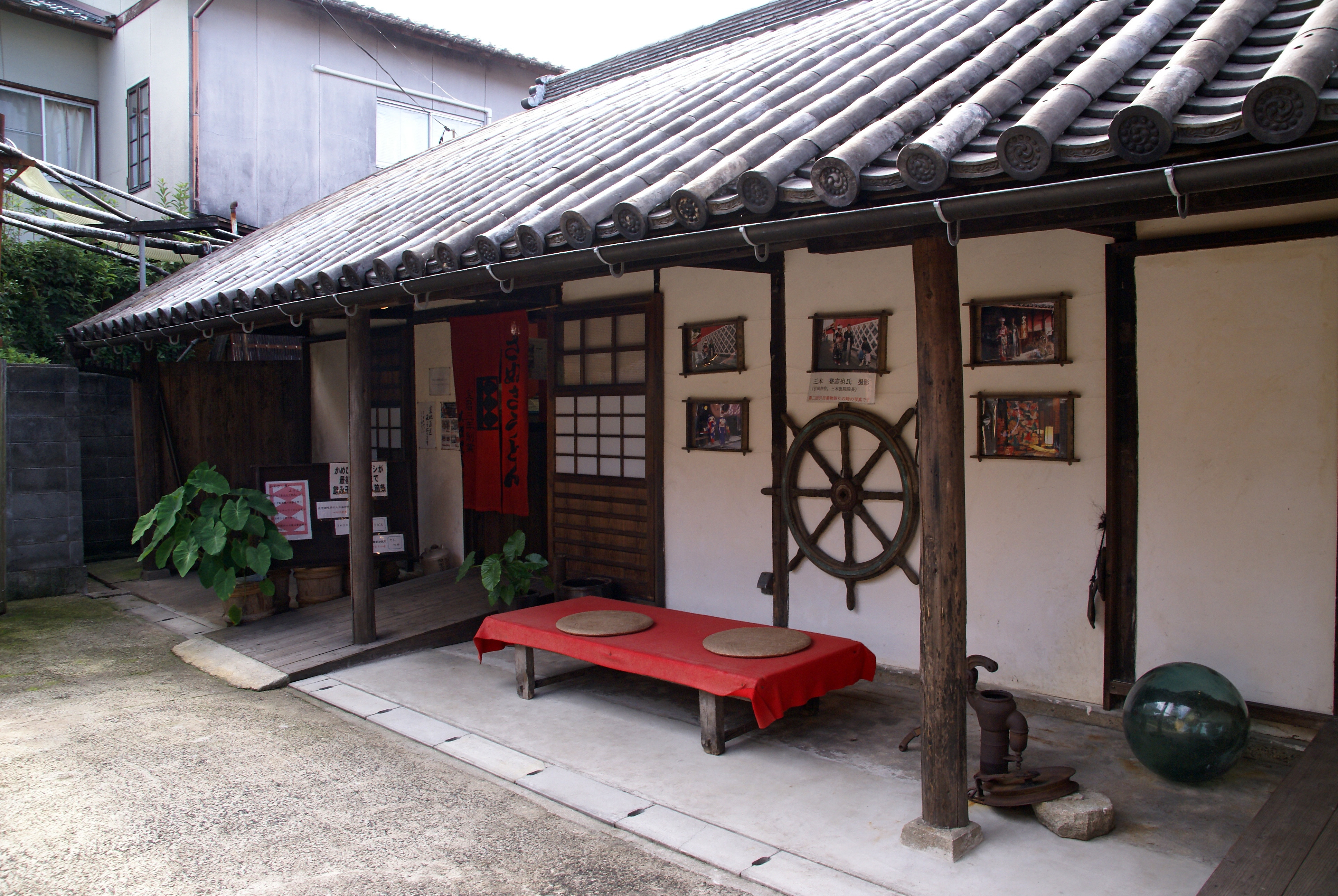 Kamebishi-ya in Hiketa, Higashikagawa, Kagawa prefecture, Japan